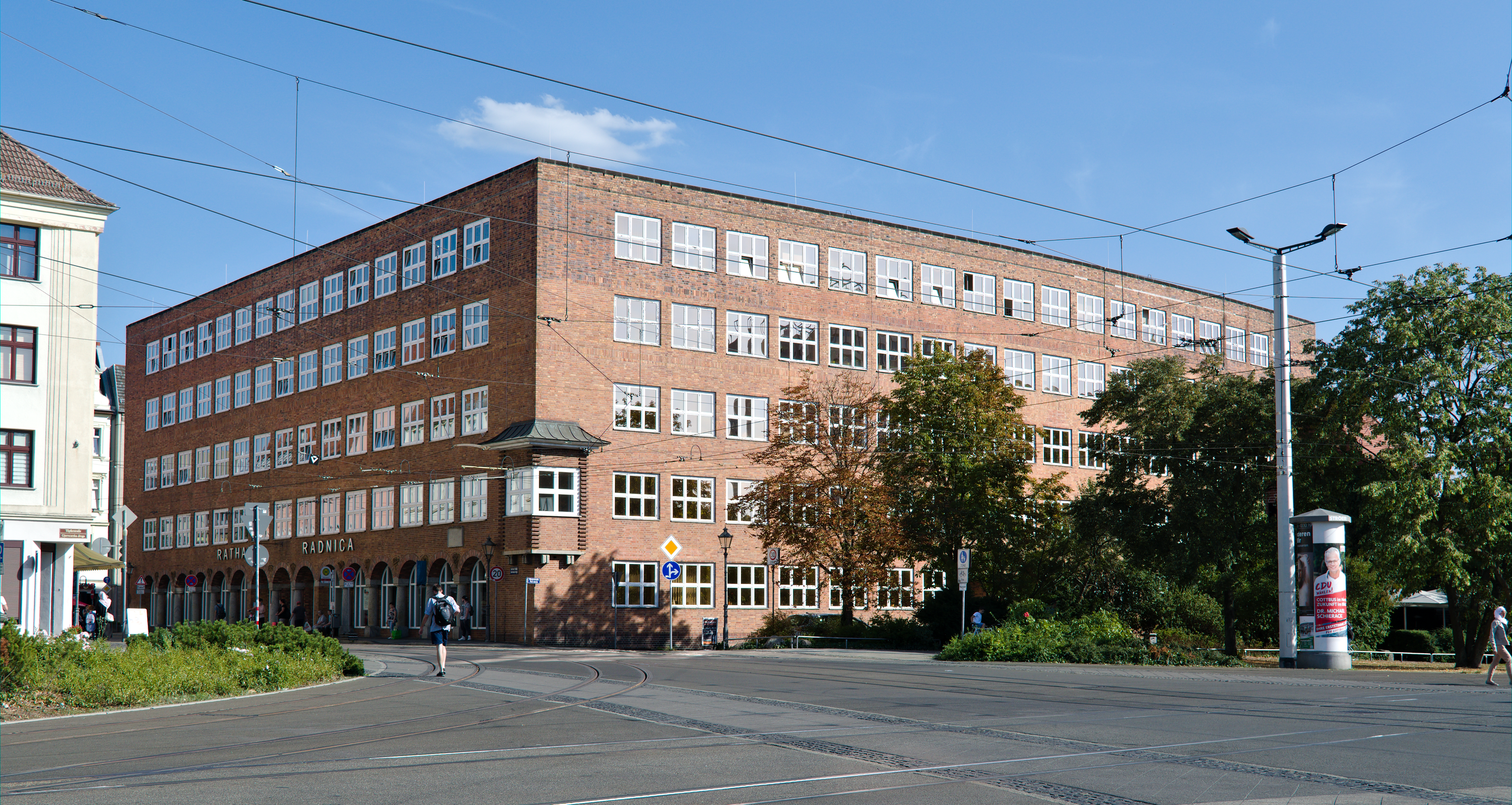 Rathaus Cottbus (town hall), Neumarkt 5 in Cottbus-Mitte.